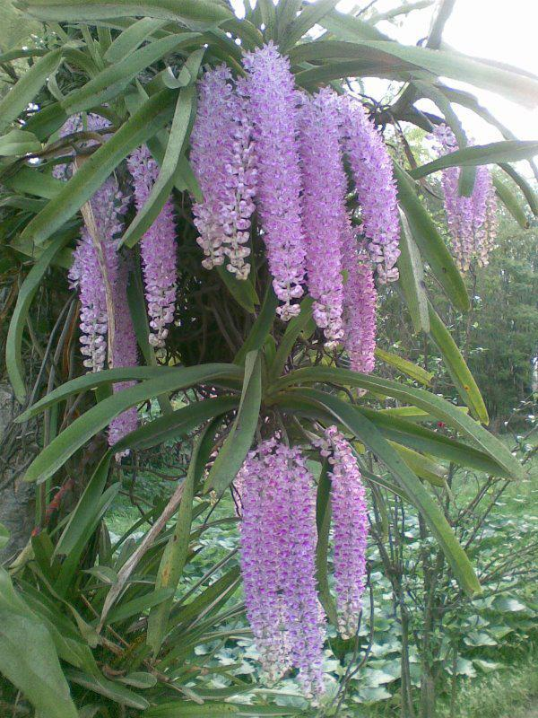 Rhynchostylis gigantea (Assam 1)